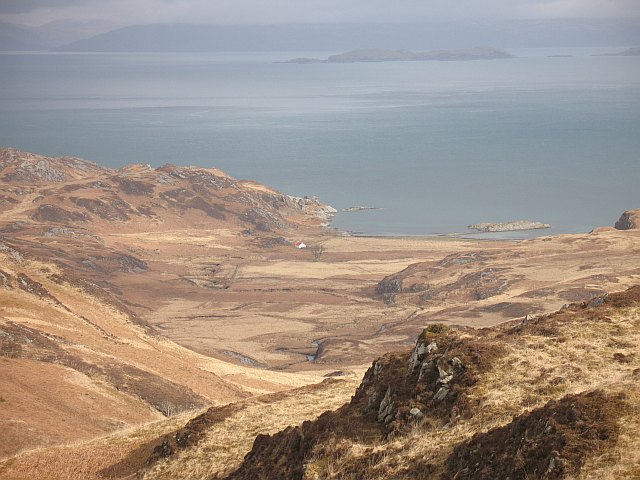 Glen Garrisdale Looking down the glen towards the sea and a cloud capped Mull.